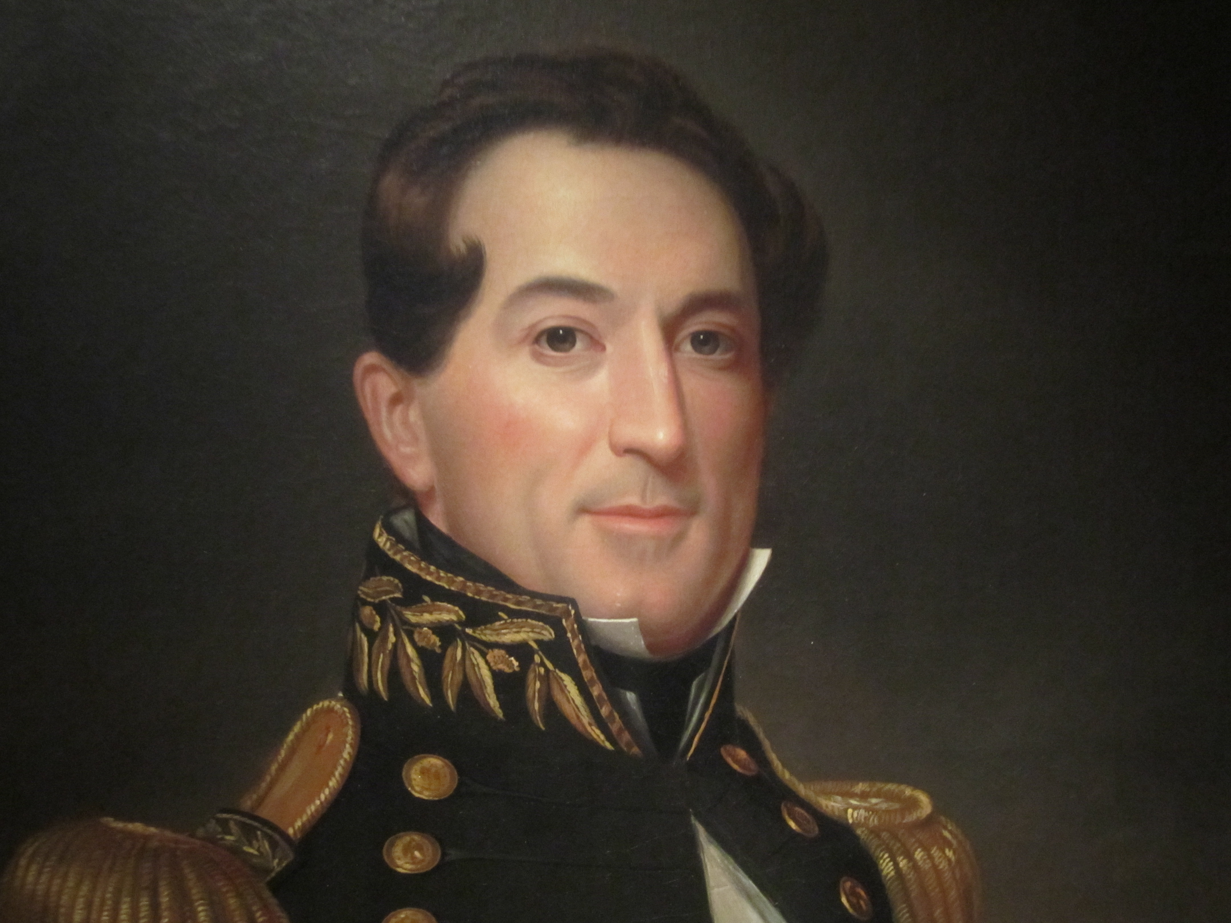 Admiral David Farragut at the National Portrait Gallery. Oil on canvas.